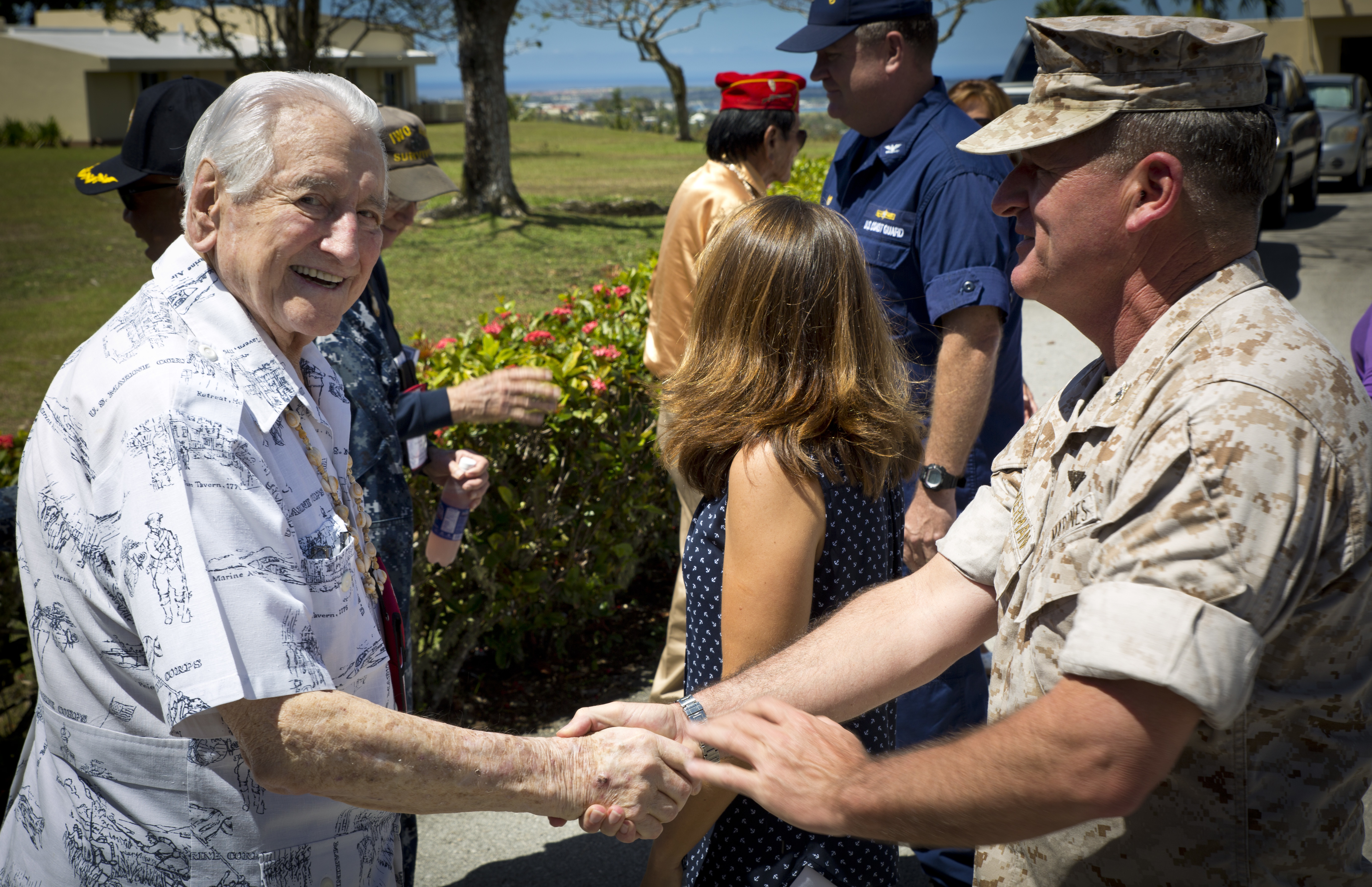 Colonel Philip Zimmerman (right), officer in charge of Marine Corps Activity Guam, greets retired Lt. Gen. Lawrence Snowden during a luncheon at Rear Adm. Bette Bolivar's home for veterans of World War II and other U.S. conflicts. The commander for Joint Region Marianas hosted the veterans at her home on Nimitz Hill for lunch, refreshments and a slice of cake during their island tour visiting war memorials and battle sites. The veterans group then traveled to Iwo Jima, now known officially as Ioto, commemorating the 70th anniversary of the Battle of Iwo Jima. (U.S. Marine Corps photo by Lance Cpl. Jacob Snouffer/Released)